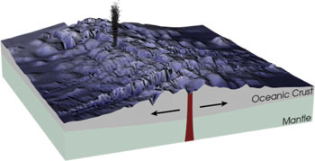 This is a rendering of an ocean ridge.